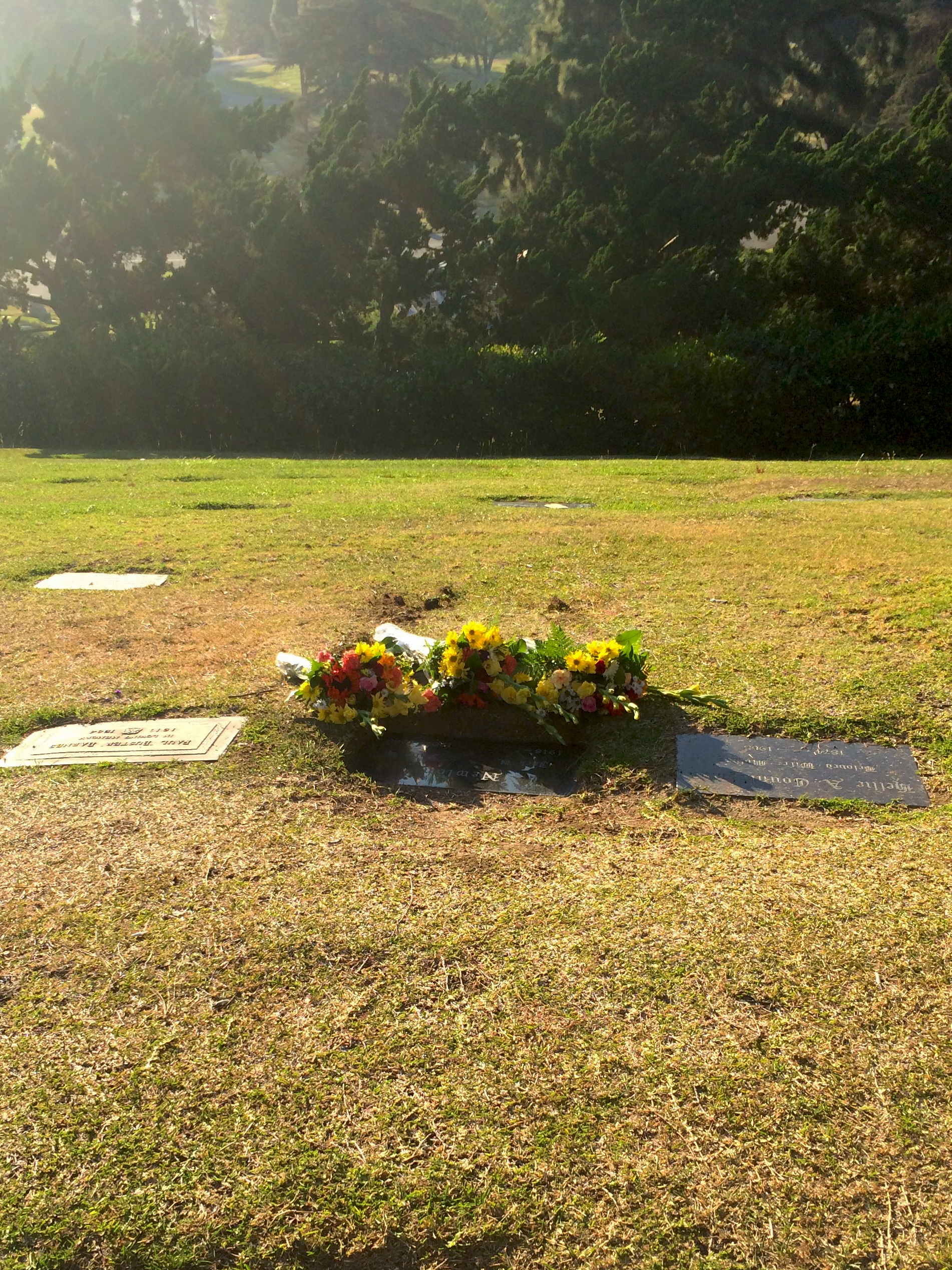 sally hansen grave 1